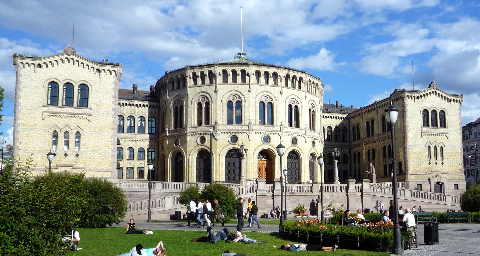 The Storting (literally the Great Thing or Great Assembly) is the Norwegian National Parliament